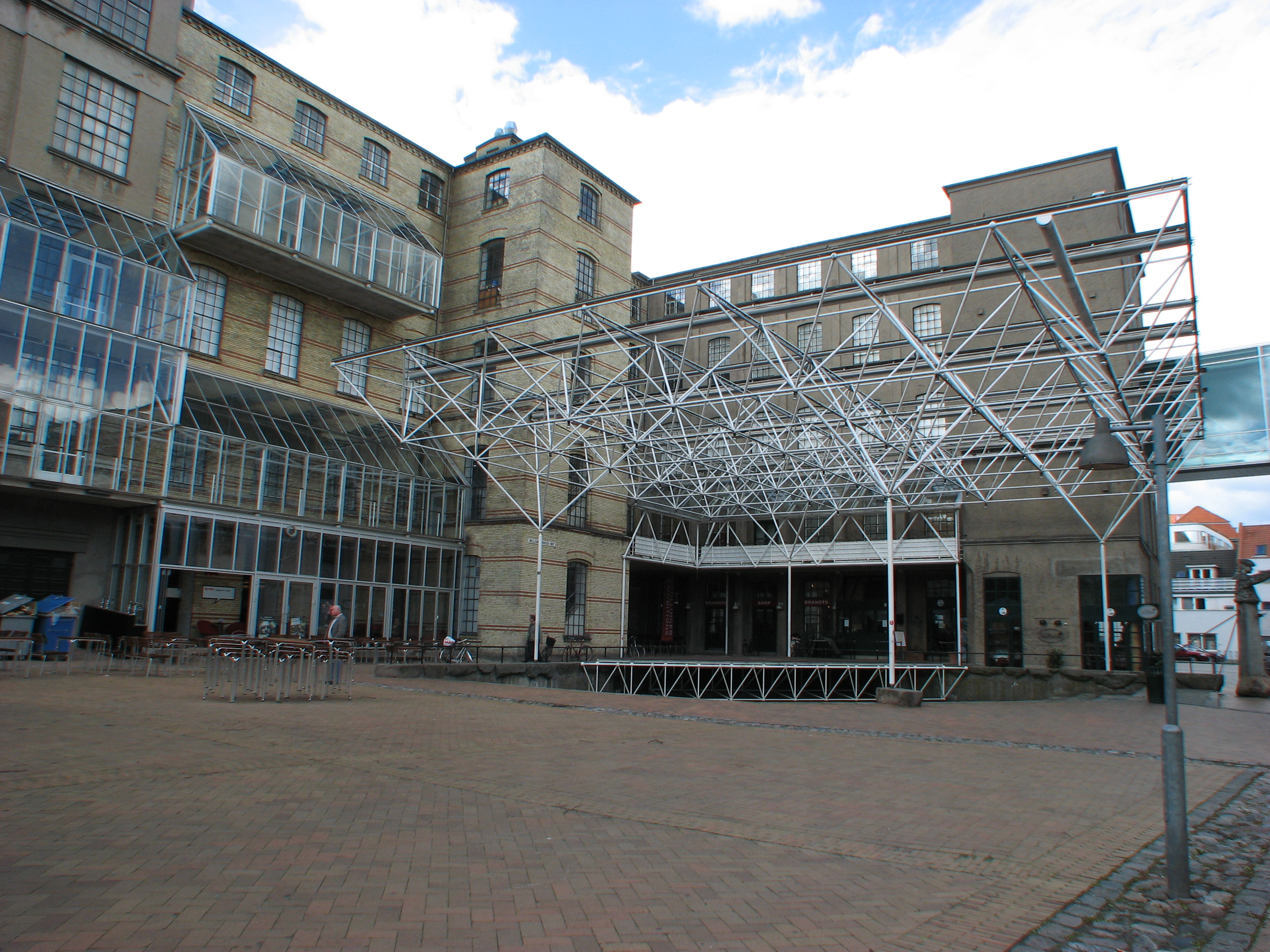 The Amfiscenen at the cultural institution Brandts in Odense, Denmark.